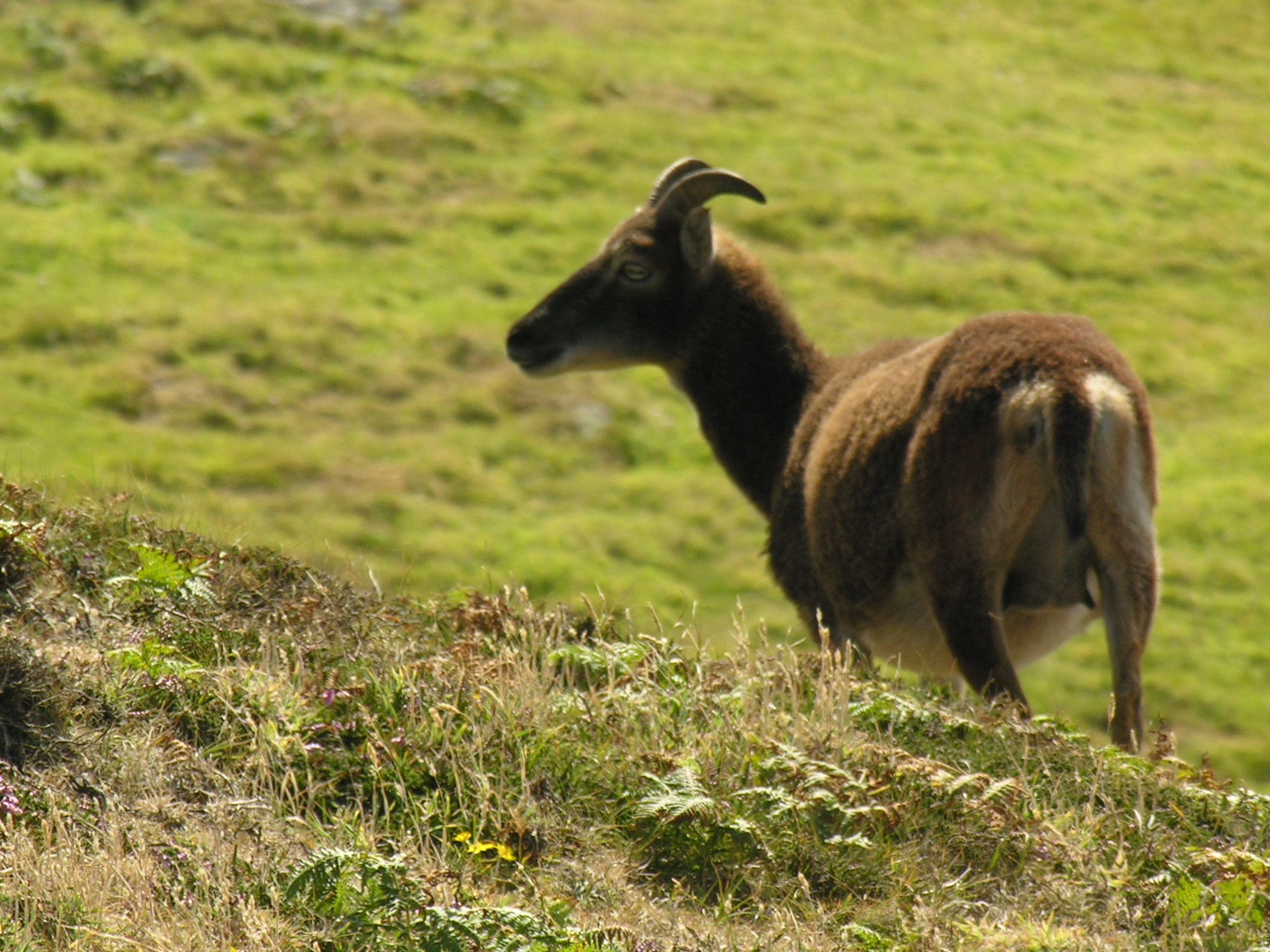 Soay sheep on Lundy, UK